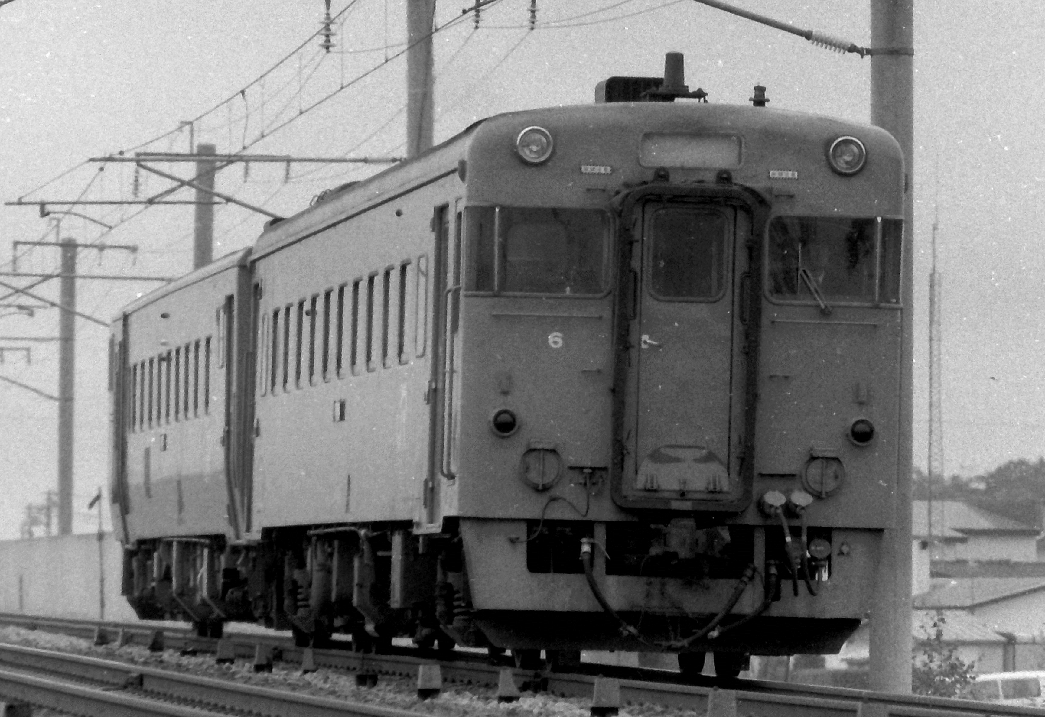 JR Hokkaido Kiha 46 6 and Kiha 48 diesel multiple unit train